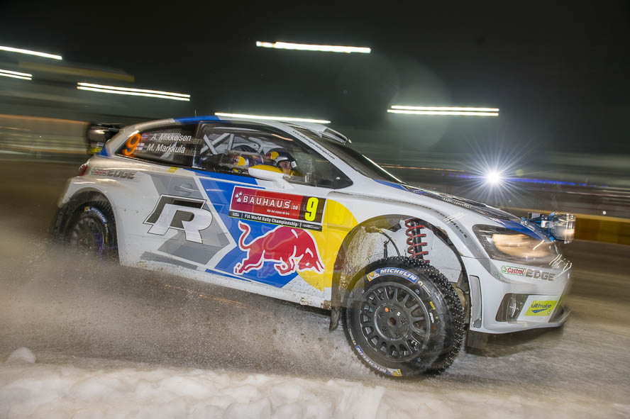 Rally Sweden 2014 Andreas Mikkelsen,Karlstad 1,Mikko Markkula,Motorsport,Rally,Rally Sweden,Rallye,Rallye Schweden,SS1,VW Polo R WRC,Volkswagen Motorsport II,Volkswagen Polo R WRC,WP1